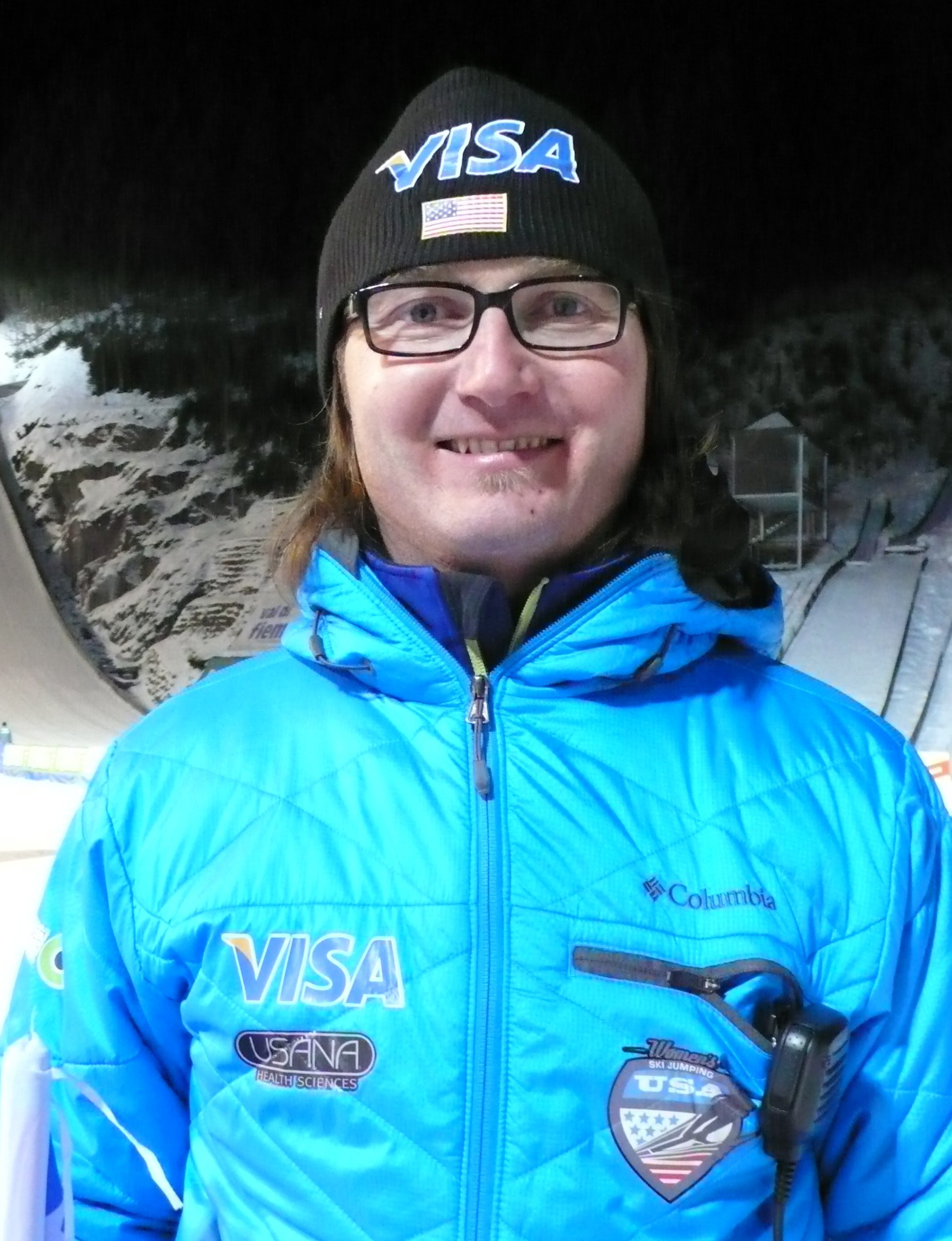 The coach Paolo Bernardi: coach of the US Ladiesskijumping team.